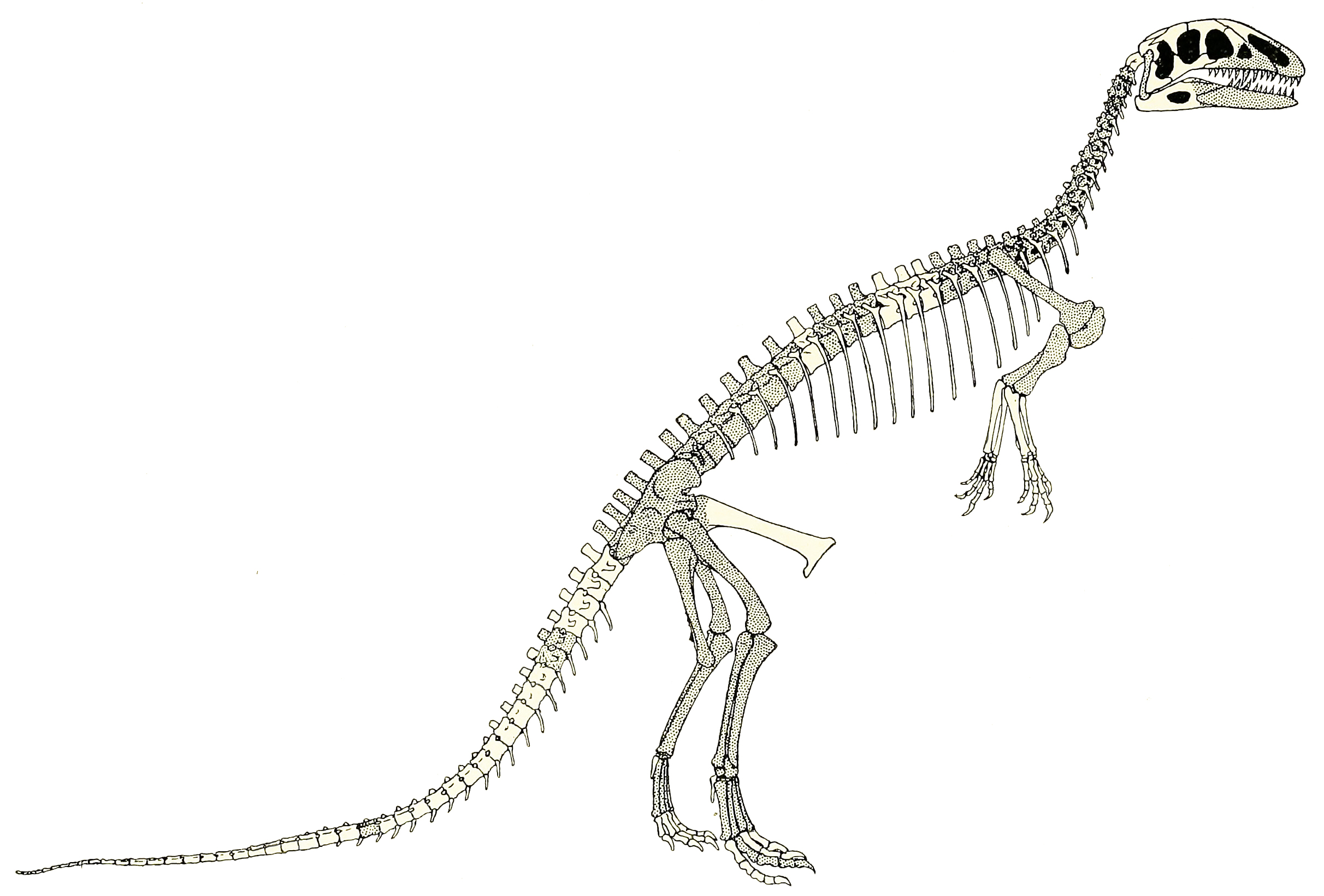 The proximally expanded fibula of Streptospondylus is conspicuouson account of its slender character, especially when compared withthe robust form of the associated tibia. In consequence of this dis-proportion it seems much more slender than in either Creosaurus,Allosauriis, or the Triassic forms. It does not show any trace ofdistal expansion. In the astragalus, which is applied firmly to, but not united with,the calcaneum, a well-developed ascending process is always present,but never reaches so high as in PoiMlopleuron. As in the latter*animal it is applied against a projection of the tibia. I wish Sullen NeiDton—Marine Fossils from Mekran Coast. 293 to refer to a former paper ^ for the phylogenetic value of theascending process. In opposition to what is known of Allosaurusand Megalosauiiis, there are in Streptospondylus in each foot fourwell-developed metatarsal bones, each bearing well-developed toesarmed with claws. The claws show the carnivorous pattern. With the superior crest of the ilium Mr. Parkers nearly completeStreptospondylus stood about 4 ft. 9 in. from the ground, and theParis specimen may have been 6 feet in height; the total length ofthese two animals was probably 20 and 27 feet. Megalosaurus, wemay assume, may have attained a maximum length of 30 feet. Plate XV accompanying this notice gives a reconstruction ofStreptospondylus as based on the study of Mr. J. Parkers fossil,and Miss A. B. Woodward has had the great kindness to makethis drawing according to my directions. The large skull, thefeeble but flexible neck, the weak anterior and powerful posteriorli